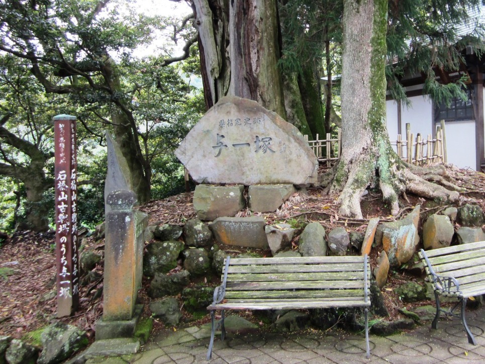 Yoichi-zuka in Odawara, Kanagawa, where Sanada Yoichi, who was killed in the Battle of Ishibashiyama, buried in.